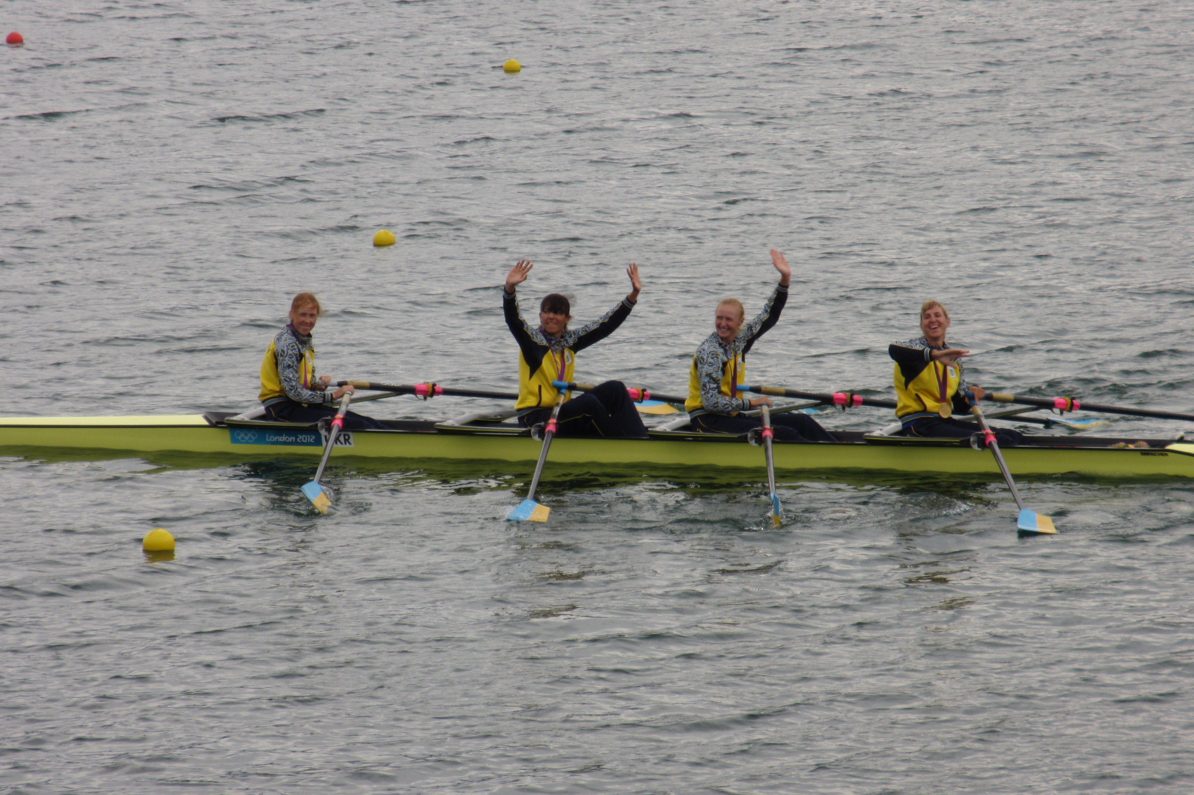 Kateryna Tarasenko, Nataliya Dovgodko, Anastasiia Kozhenkova and Yana Dementieva celebrating with their gold medals